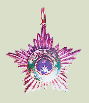 Order of king Abdullaziz by king saud of saudi arabia